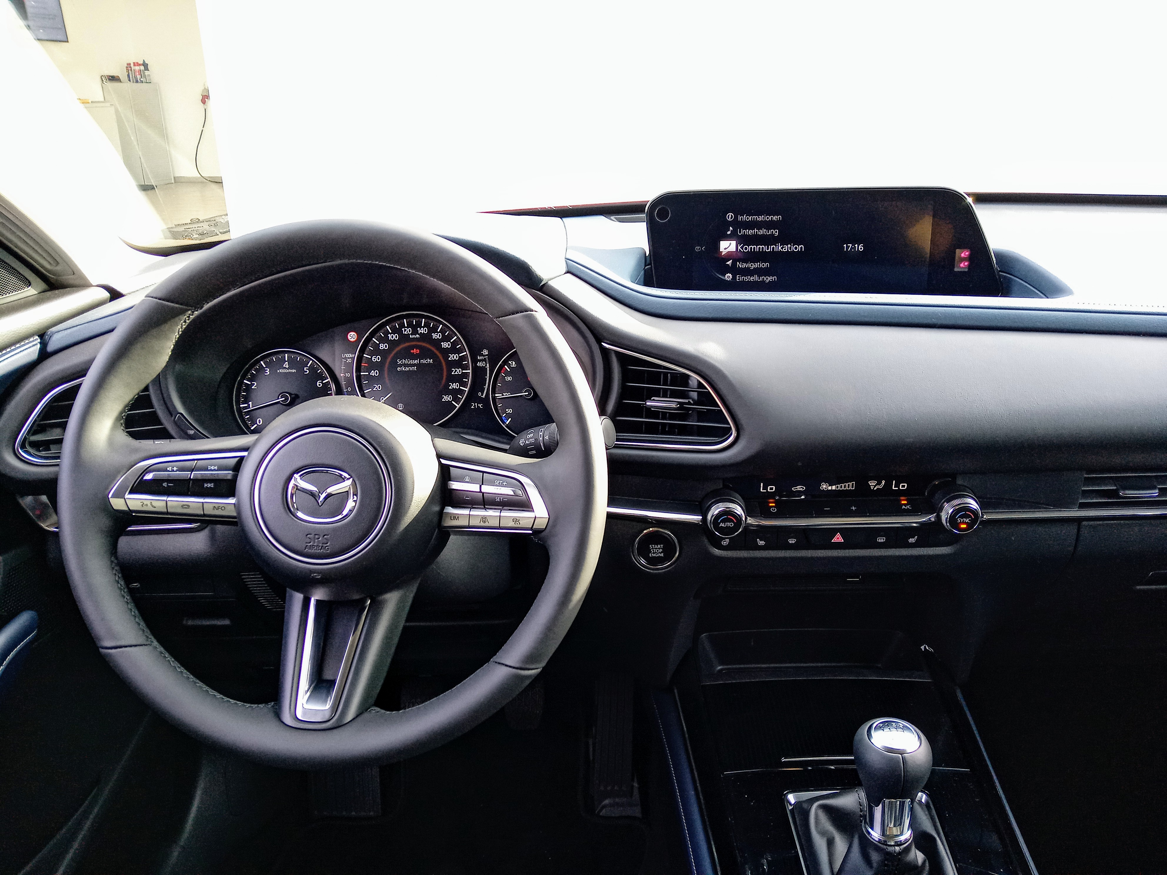 Cockpit Mazda CX-30